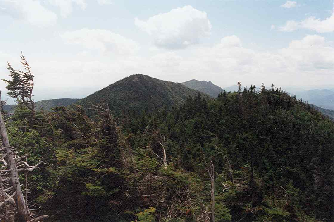 Hough Peak and Macomb Mt seen from the ridge to Dix Mt, Adirondacks, NY